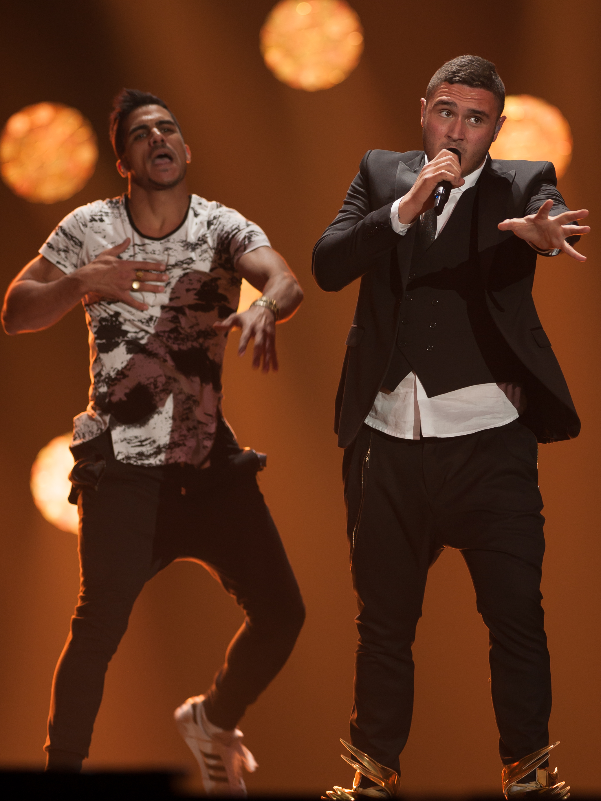 Eurovision Song Contest Vienna 2015: Nadav Guedj